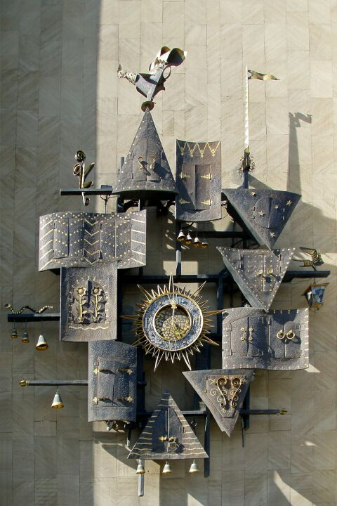 Obraztsov puppet theatre in Moscow